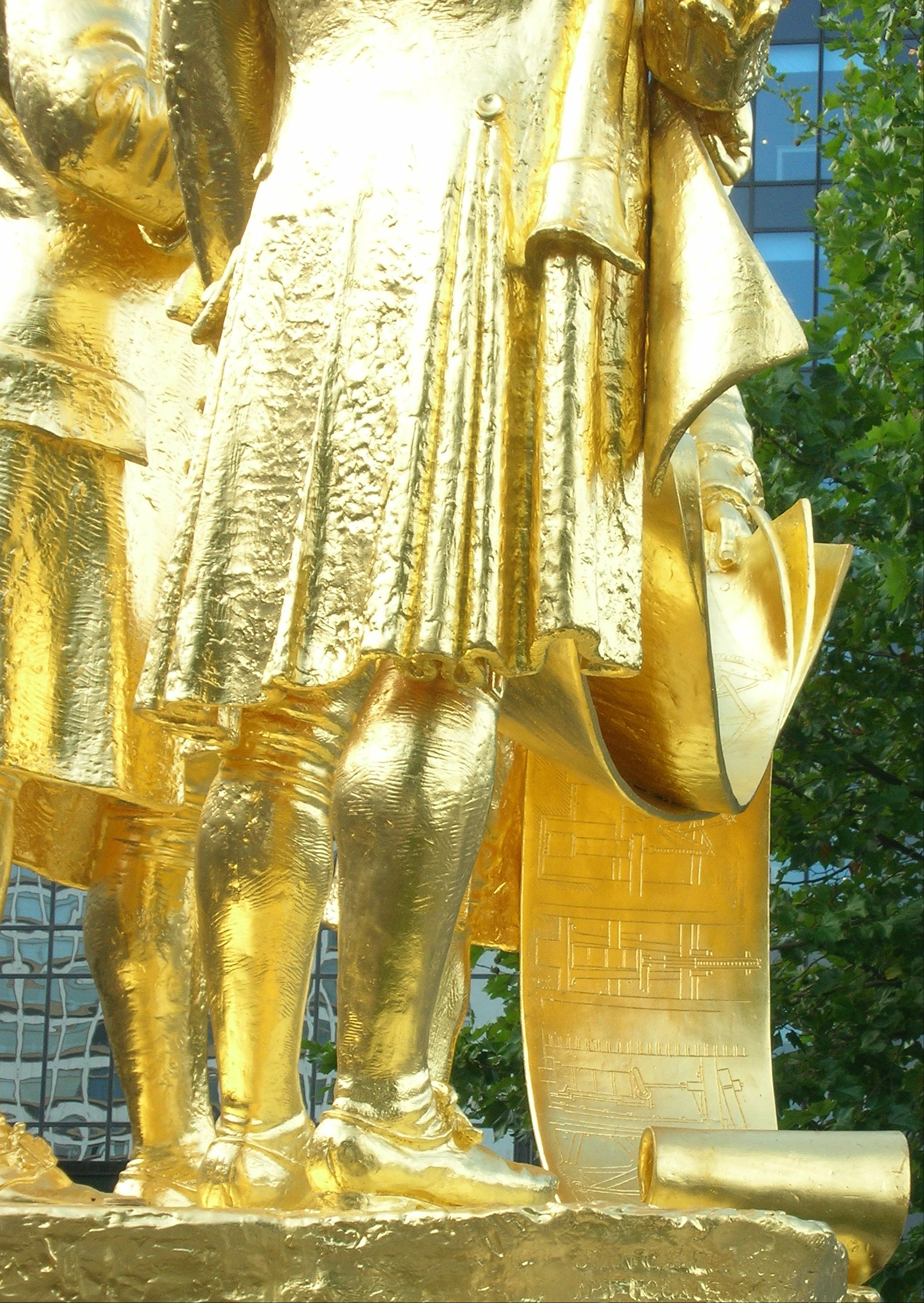 Detail if the engine plans on the scroll of the newly re-gilded statue of Boulton, Watt and Murdoch in central Birmingham, England. Photographed by me 18 September 2006.